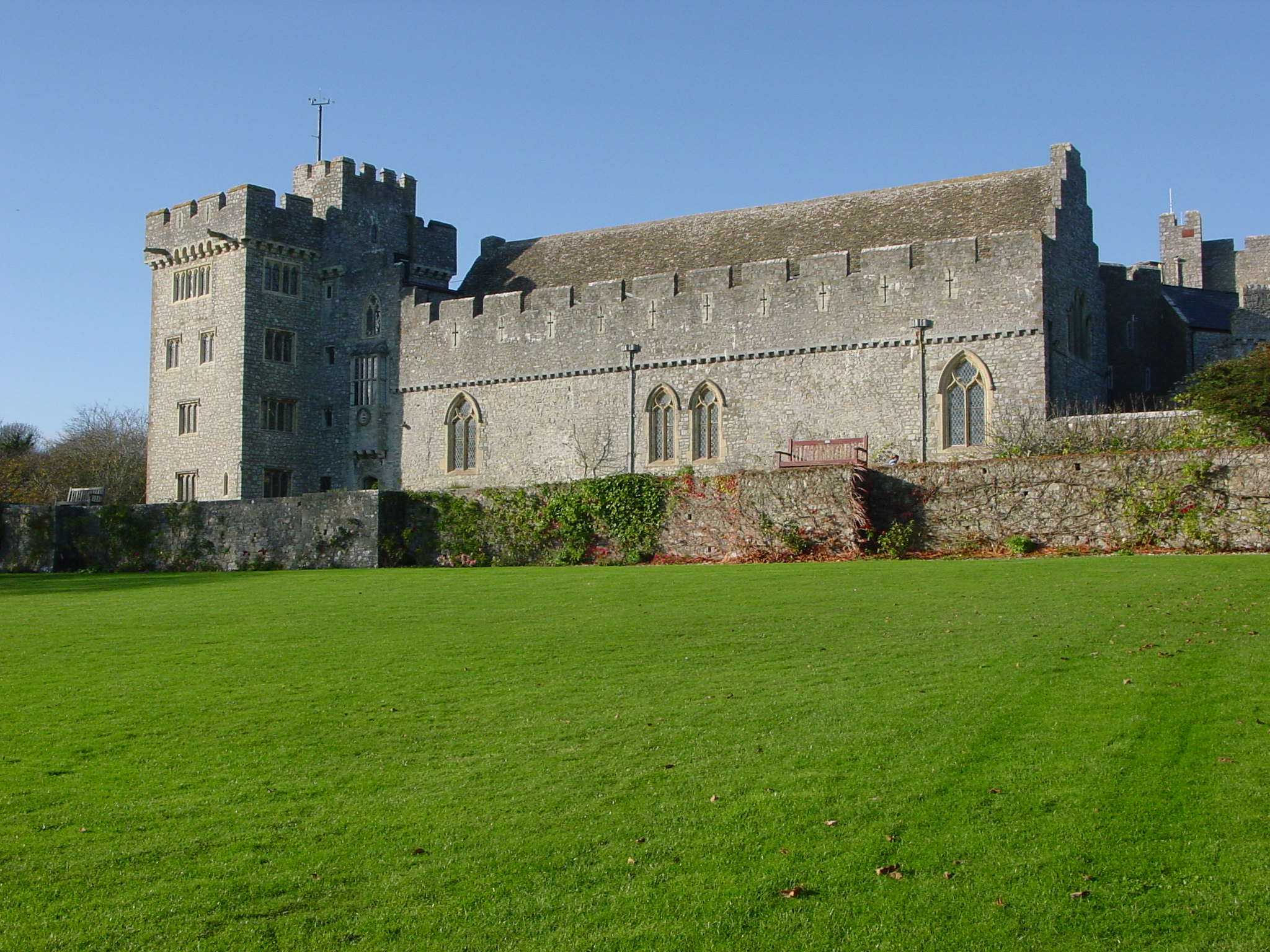 St Donats Castle.